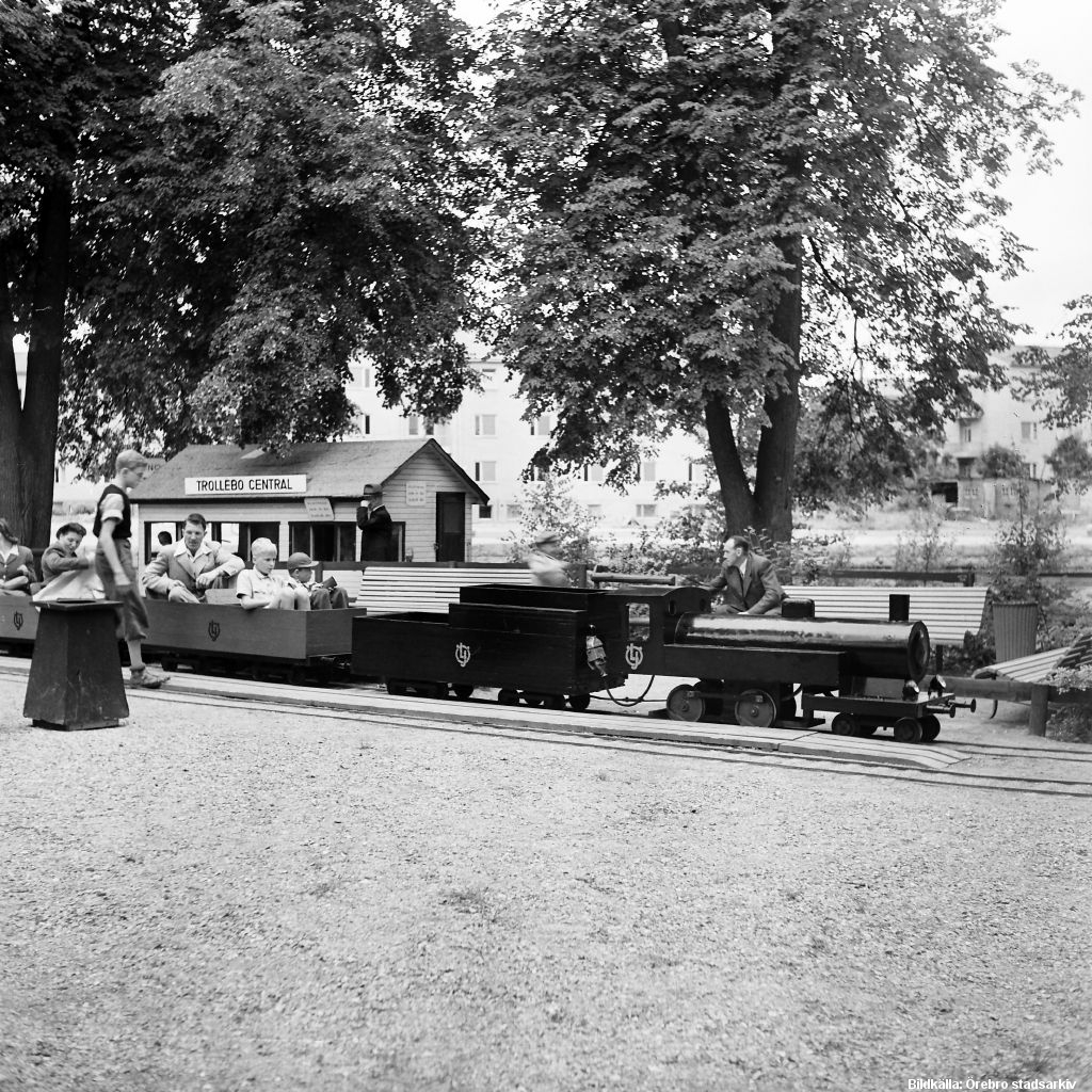 The mini train at Stora Holmen, Örebro, Sweden.